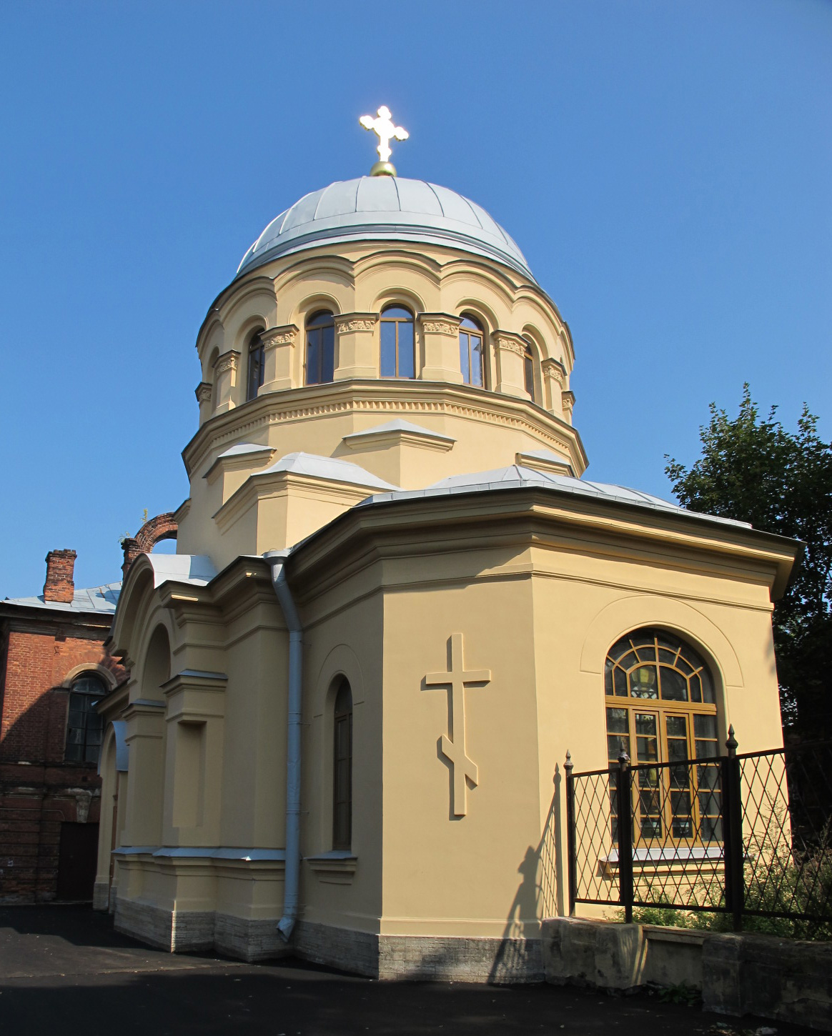 Saint Nicholas Church in Kronstadt